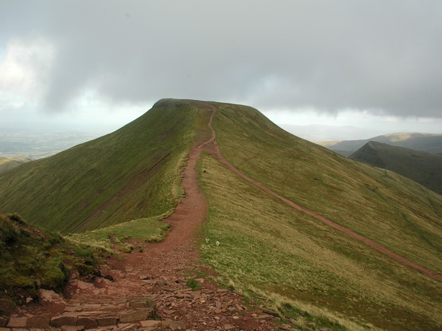 Pen Y Fan approached from Corn Du The view of Pen Y Fan as you drop down from Corn Du (and enter pen Y Fan's own grid square!)